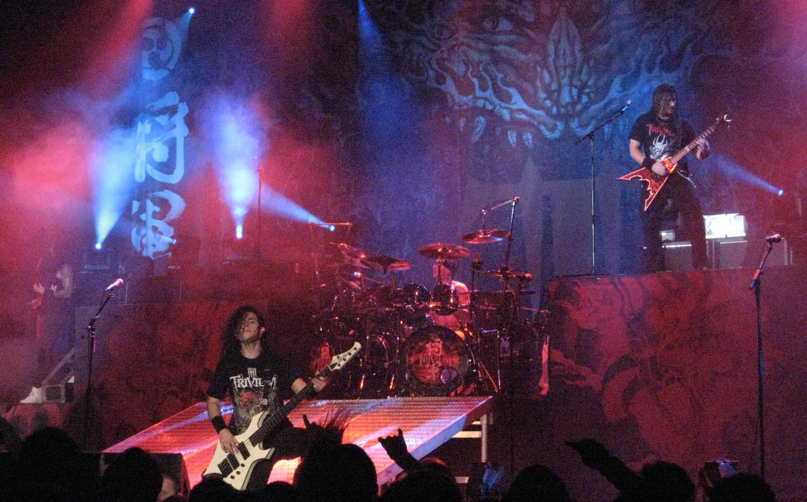 Trivium live at Cardiff International Arena in 2008